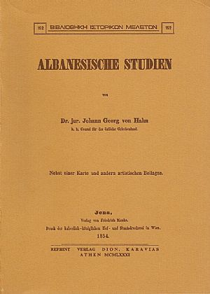 Johan von Hahn, Albanesische Studen, Jena, 1854.